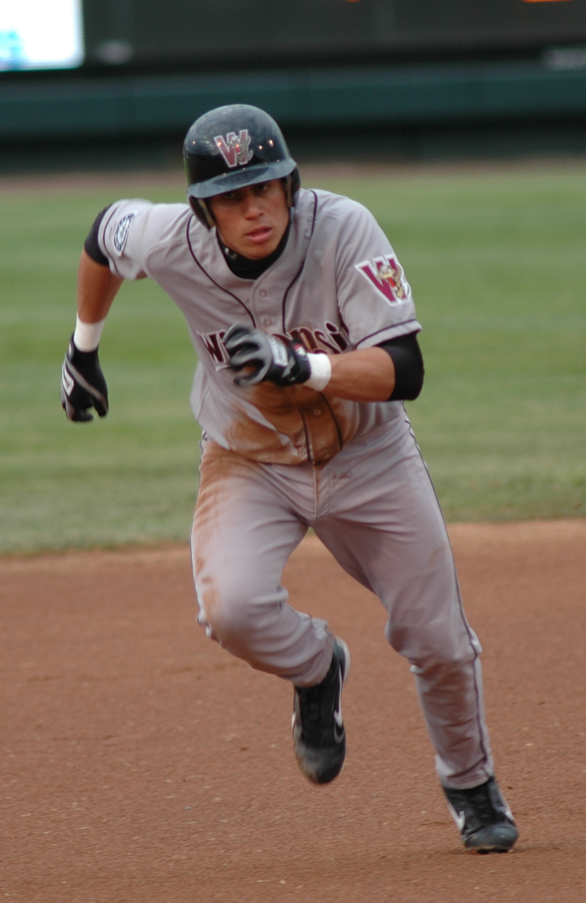 Wisconsin @ Lansing, 051605